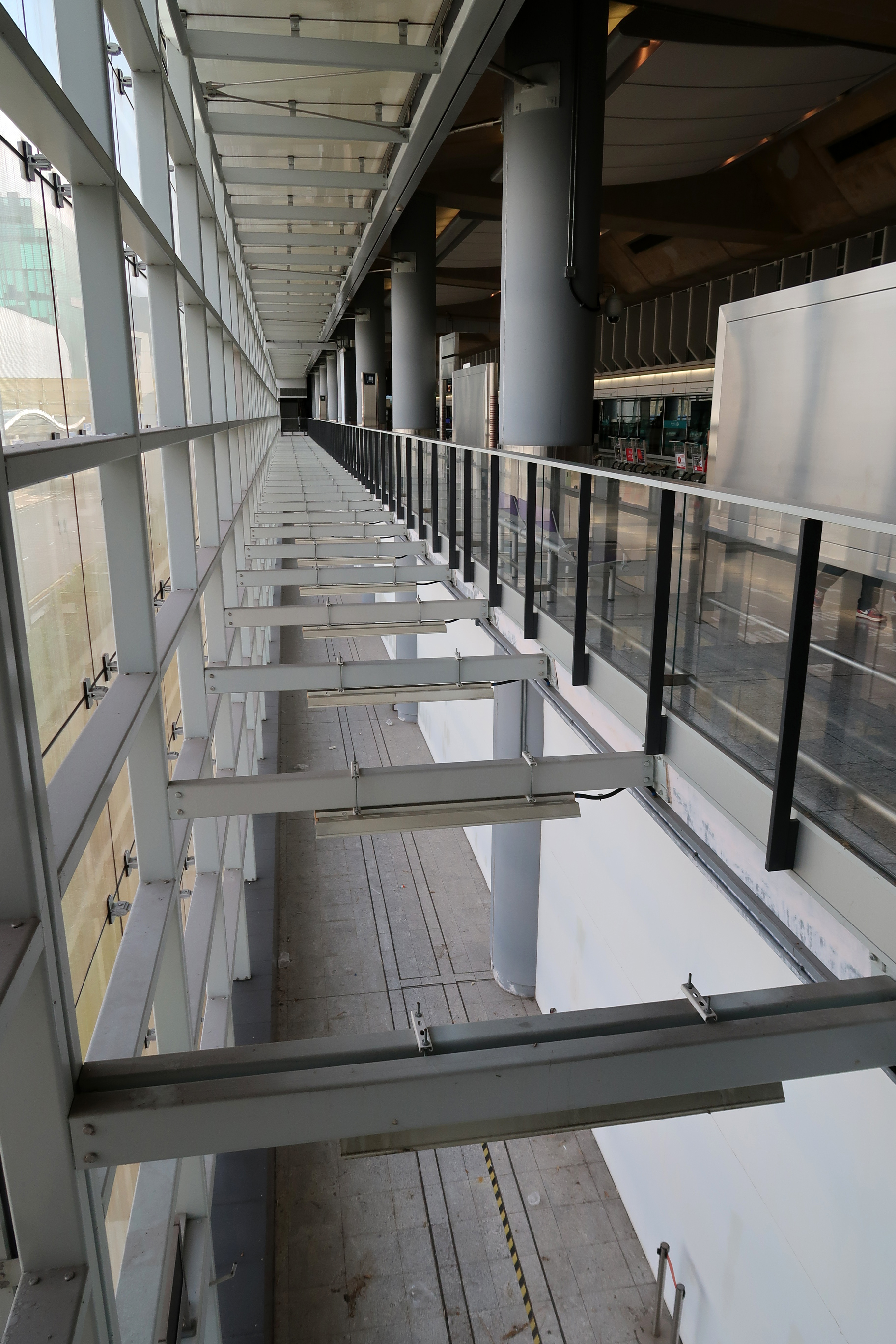 Airport Station Reserved Structure